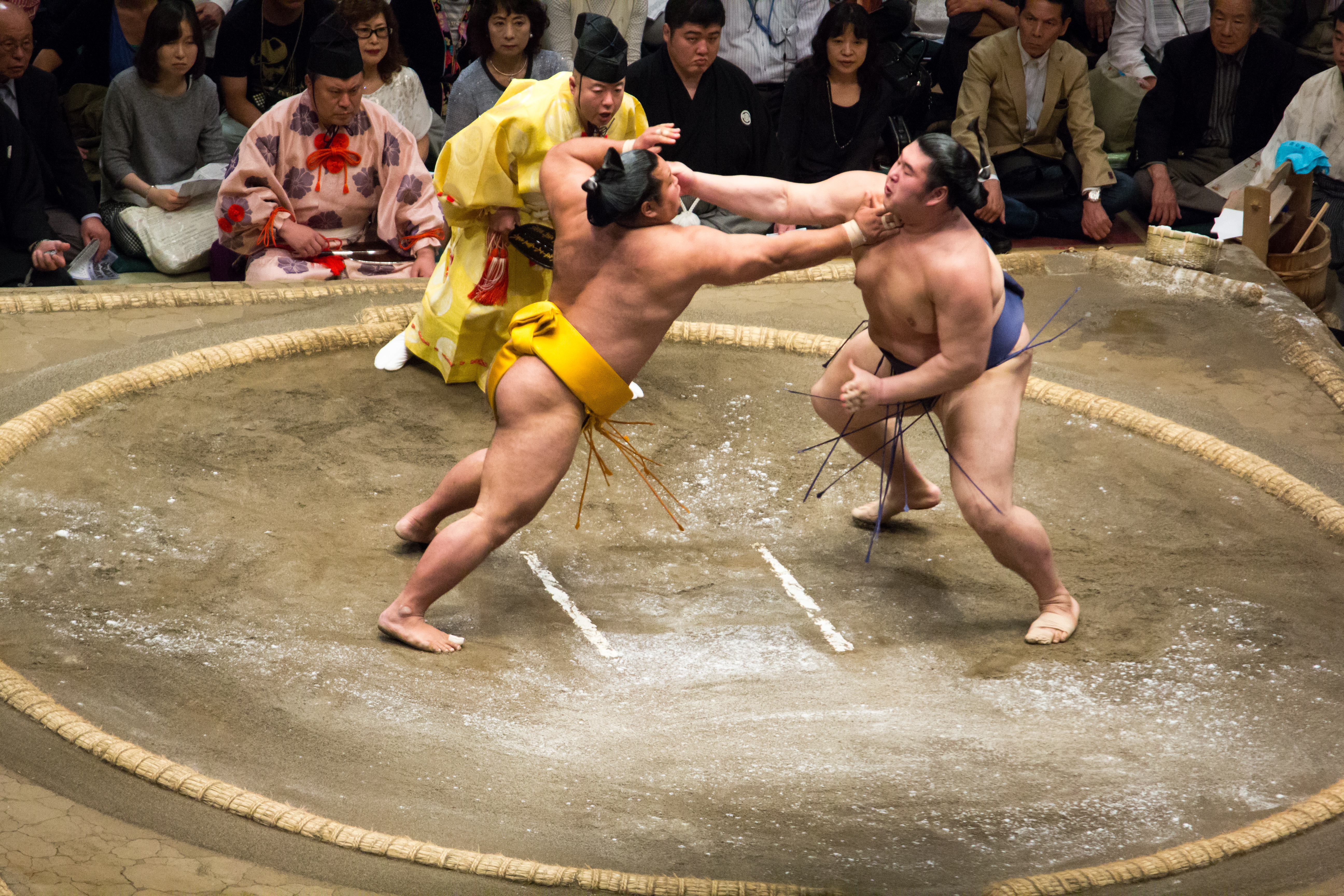 Shōhōzan (left) vs. Tochinowakai at the 2014 May Grand Sumo Tournament in Tokyo, Japan. Canon EOS 60D + EF-S 55-250mm F4-5.6 IS